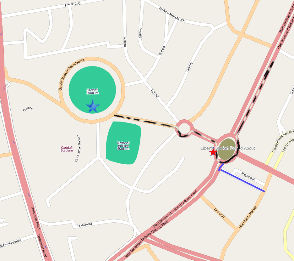 The liberty chowk/roundabout is the place where attack took place.The black/gray route is of the Team convoy and Blue is the route which terrorist used to run away.